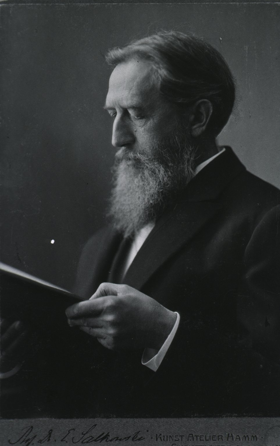 Ernst Leopold Salkowski